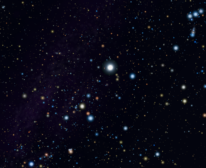 Image of Canis Major